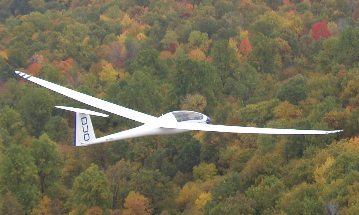 Schempp-Hirth Duo Discus photographed in flight